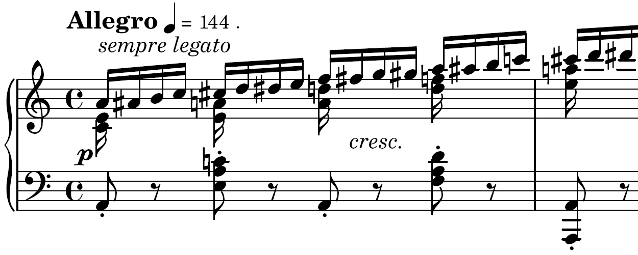 Opening from an Étude (Op.10 No.2) composed by Frédéric Chopin, made in lilypond version 2.12.0